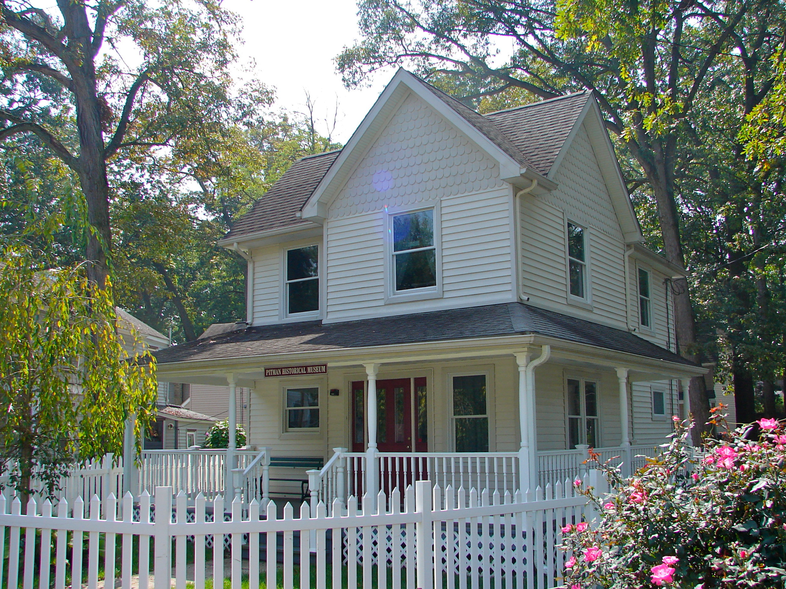 Pitman Grove on the NRHP since August 19, 1977. The Historic District is bounded by Holly, East, Laurel, and West Aves. (both sides). Adjacent to the church or meeting hall is this museum. In Pitman, New Jersey.